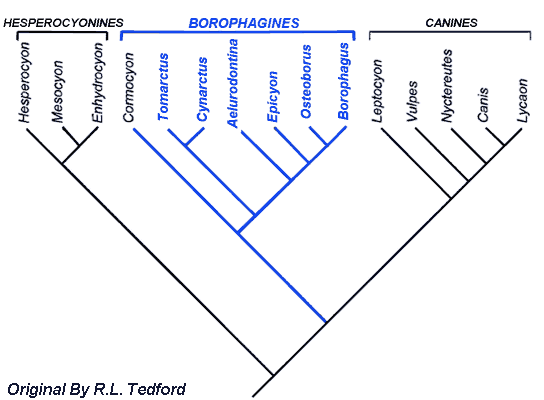 Borophangine systematics chart